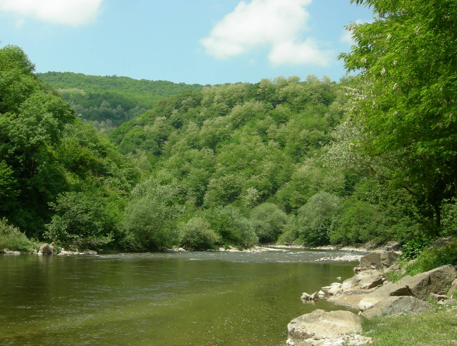 Dzirula River near Kveda Tseva (ქვედა წევა), Zestafoni District, Imereti, Georgia